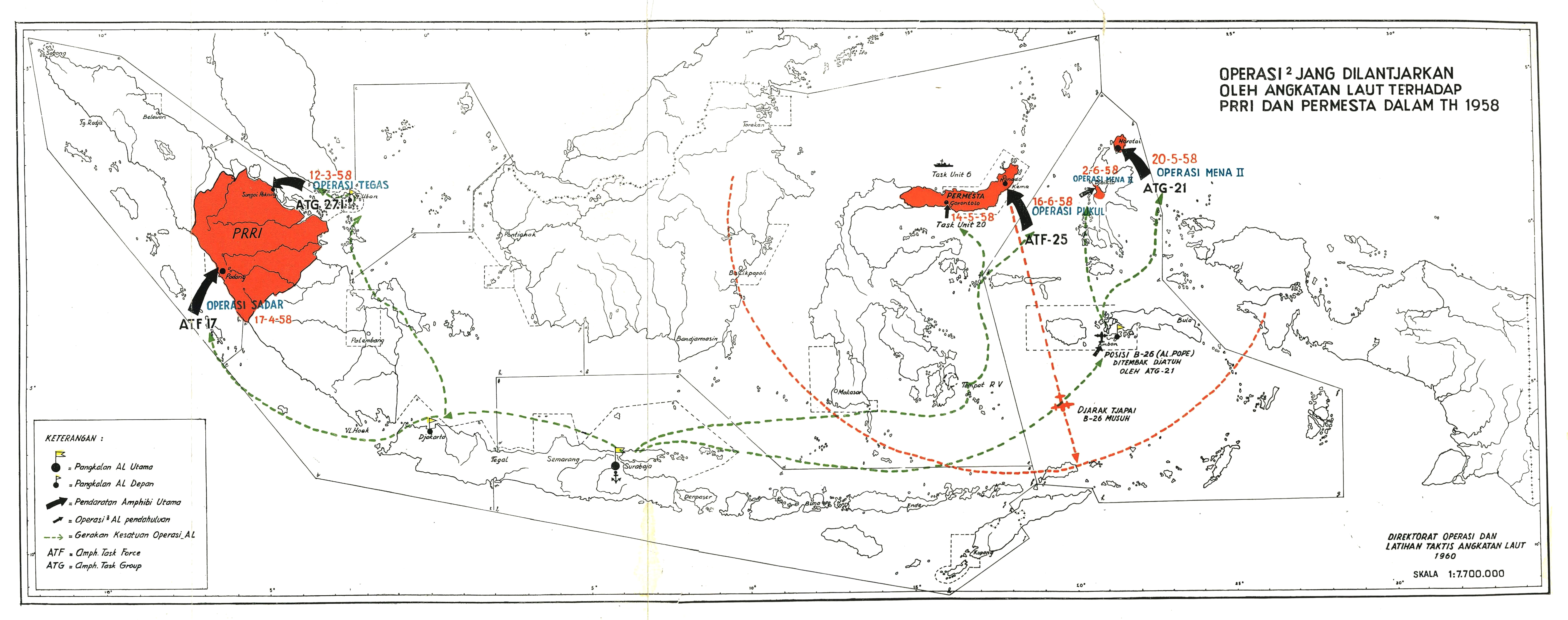 Map of Indonesian Navy activities against PRRI (Revolutionary Government of the Republic of Indonesia) and Permesta